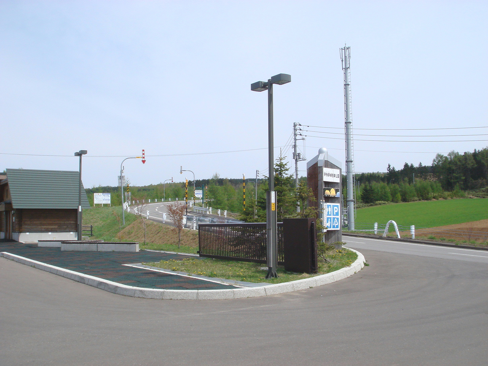 Hokkaido Pref Route Sign 79, totoro-toge parking (Fukagawa, Hokkaidō)